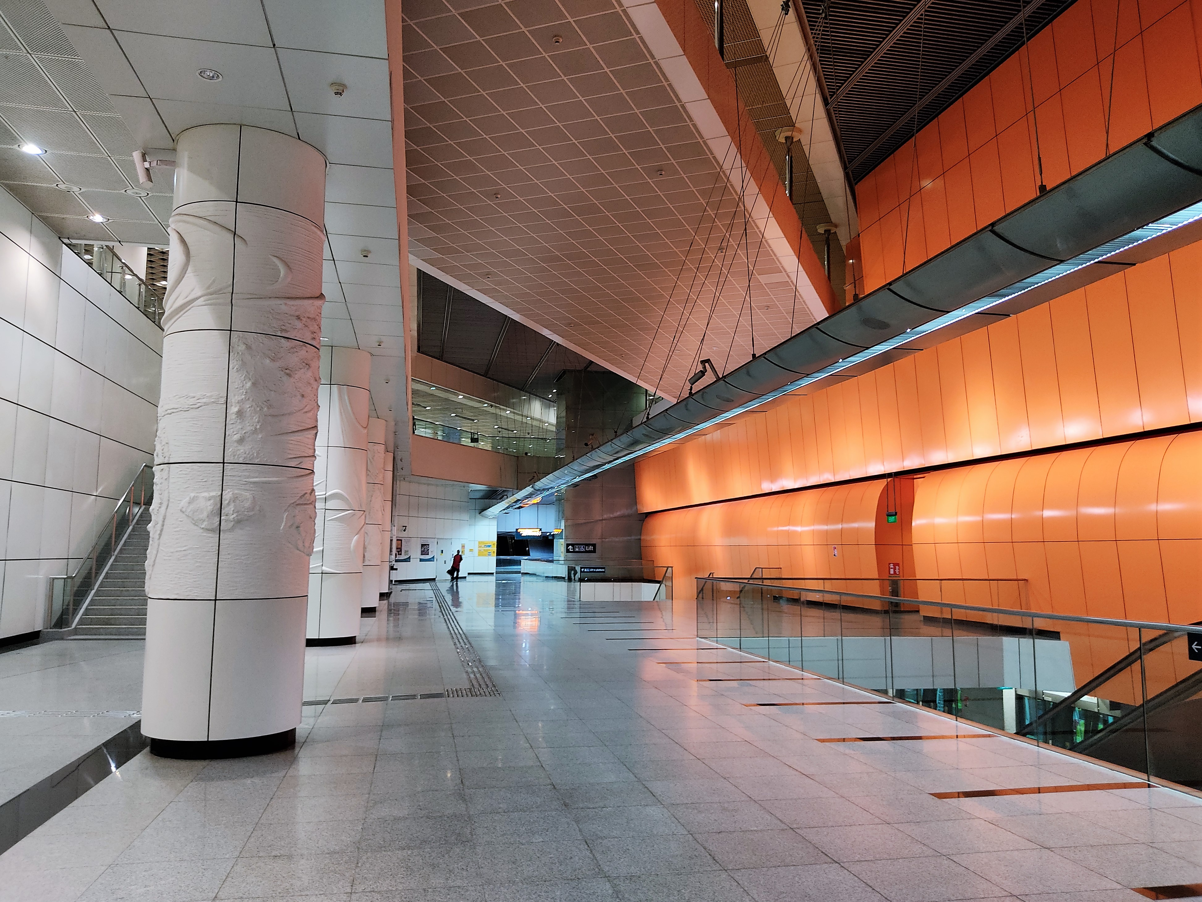 Art in Transit at Dhoby Ghaut station